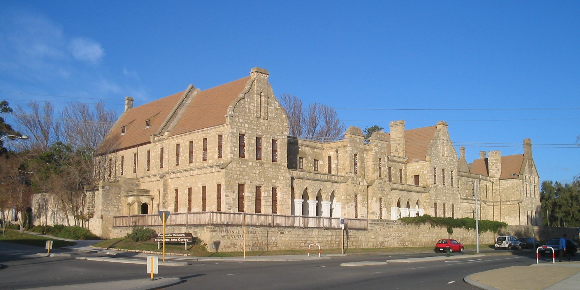 Fremantle Arts Centre